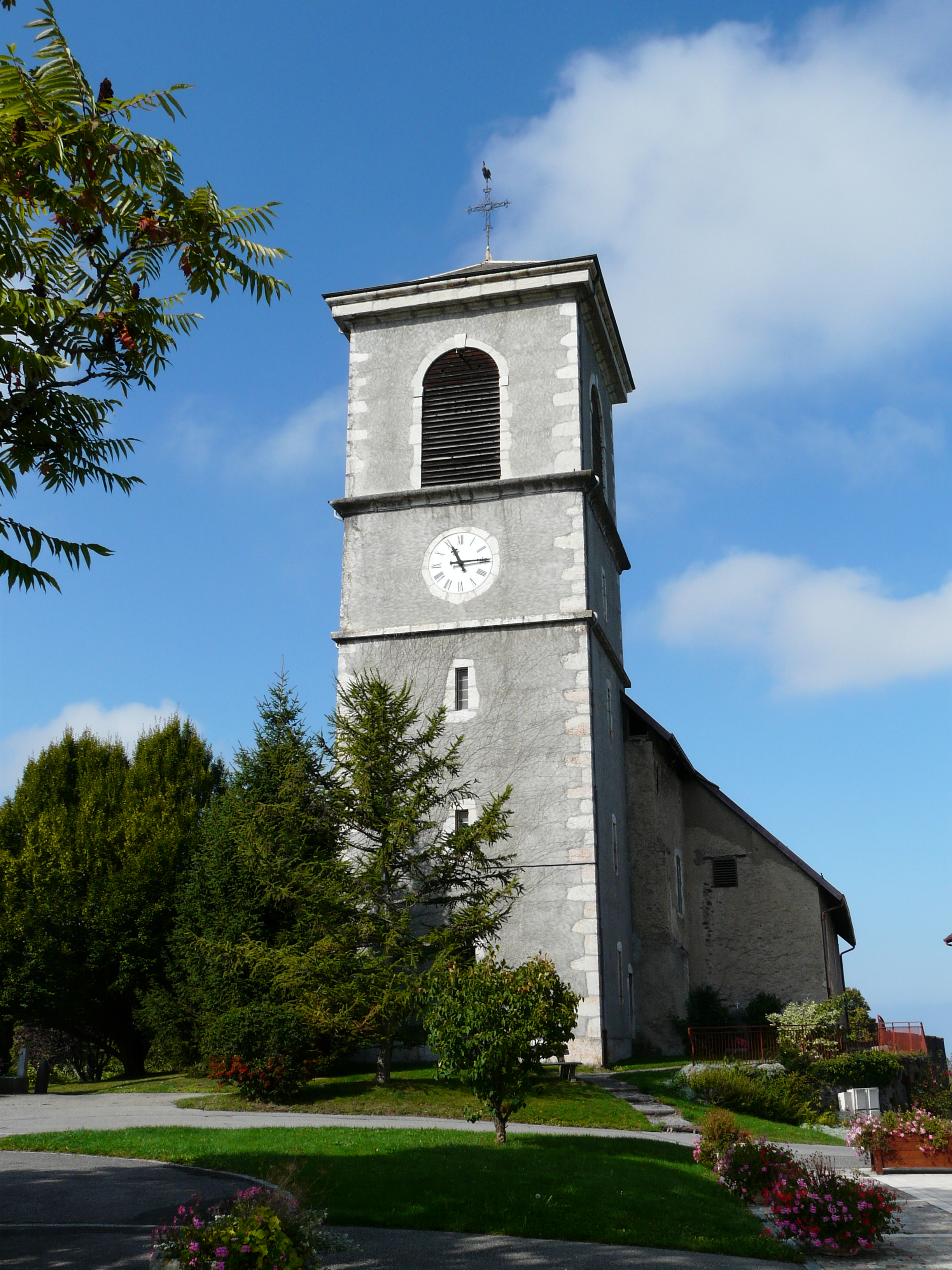 The RC church in Saint-Paul-en-Chablais